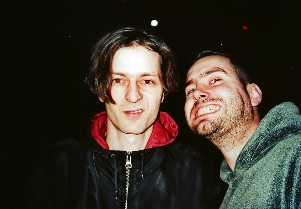 Air Liquide